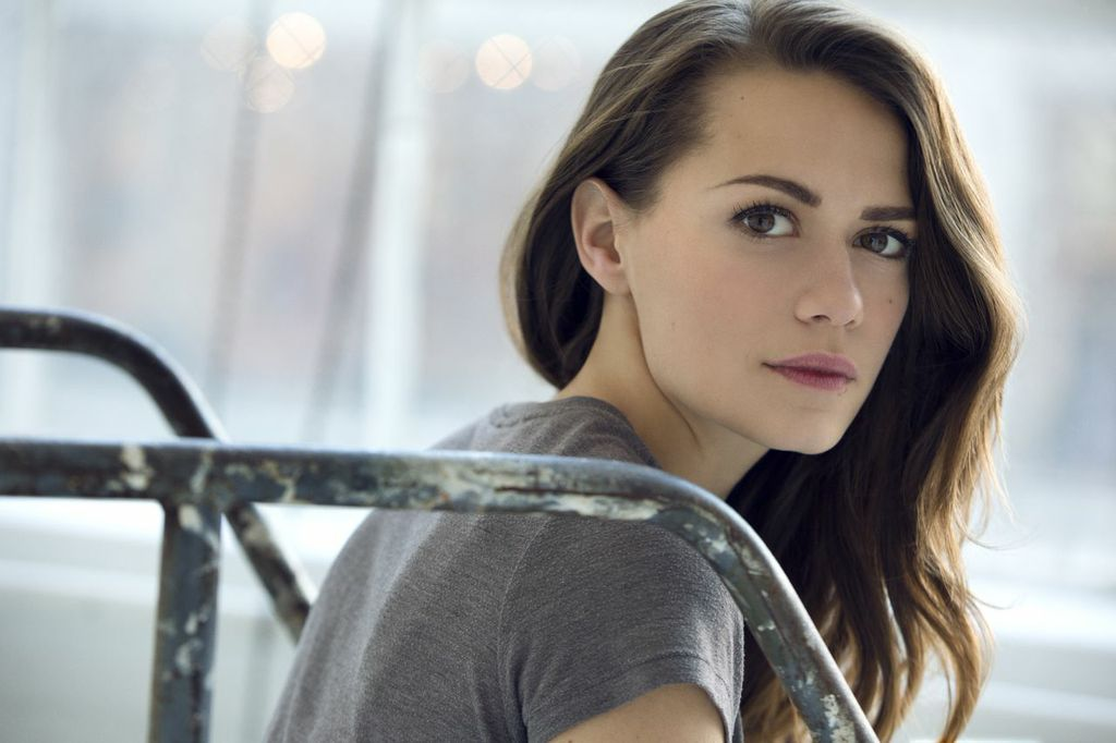 Bethany Joy Lenz